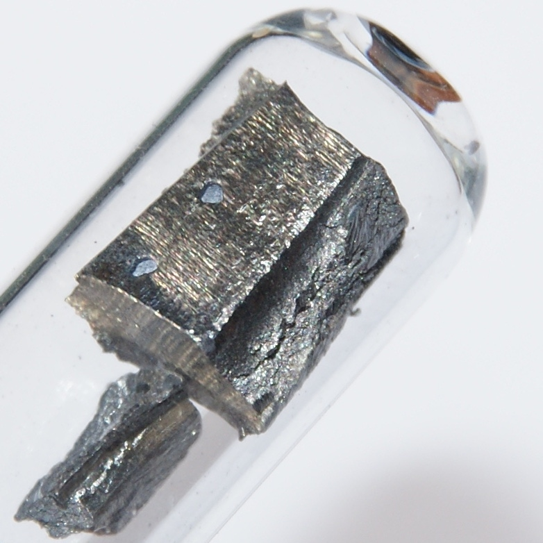 Neodymium is one of the more abundant lanthanoids and has many different applications. It is often used as colorant for glass and ceramic, because its compounds, depending on concentration, can make a beautiful blue, green or red. Another important application is as active medium in Nd:YAG lasers. Nd2Fe14B, neodymium-iron-boron, known as neodymium magnet, is the strongest permanent magnet.